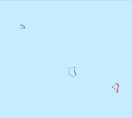 Fakaofo and Tokelau